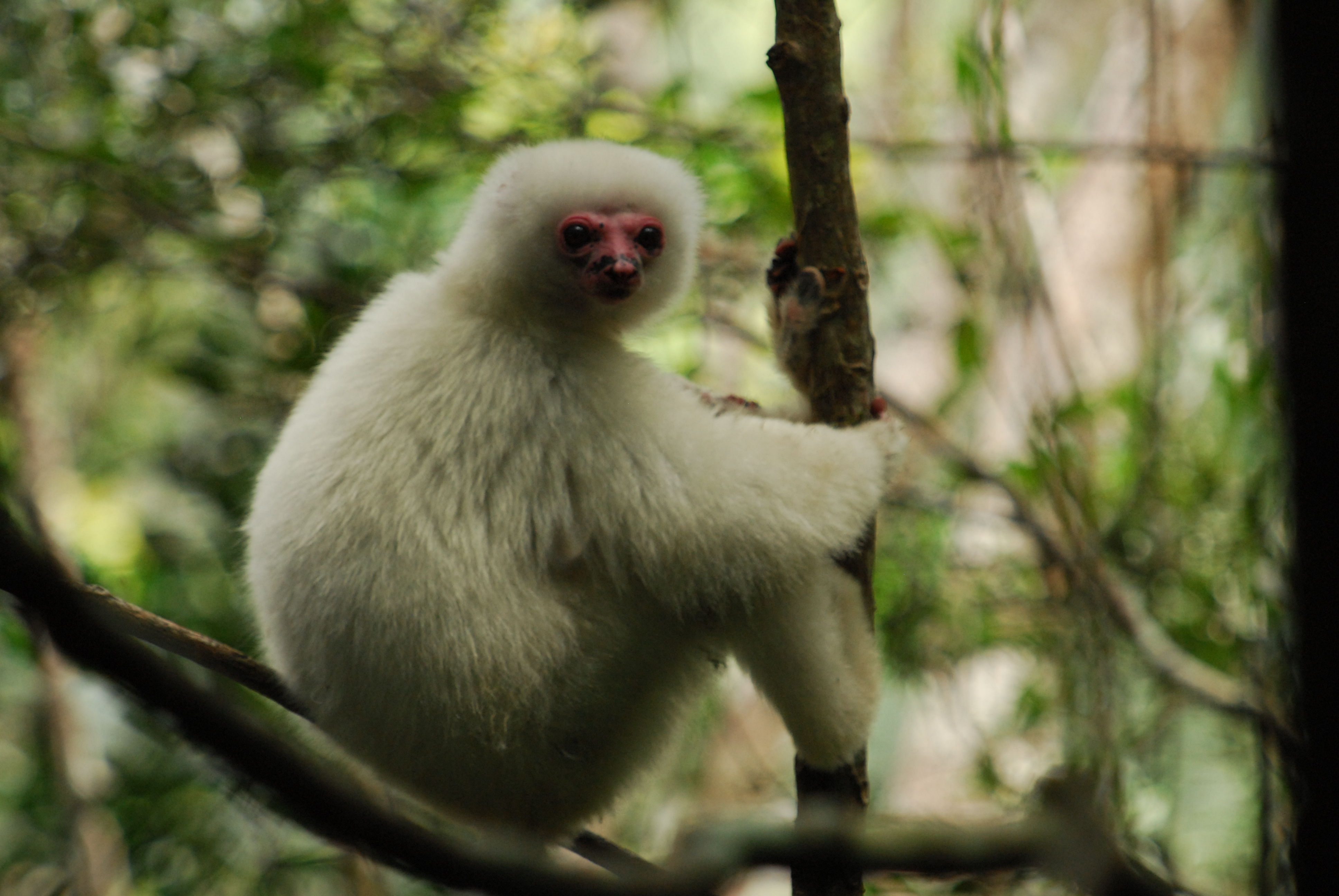 Silky Sifaka Photo Taken By Myself in Marojejy National Park, Madagascar